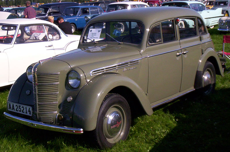 Moskvitch 4-Door Sedan